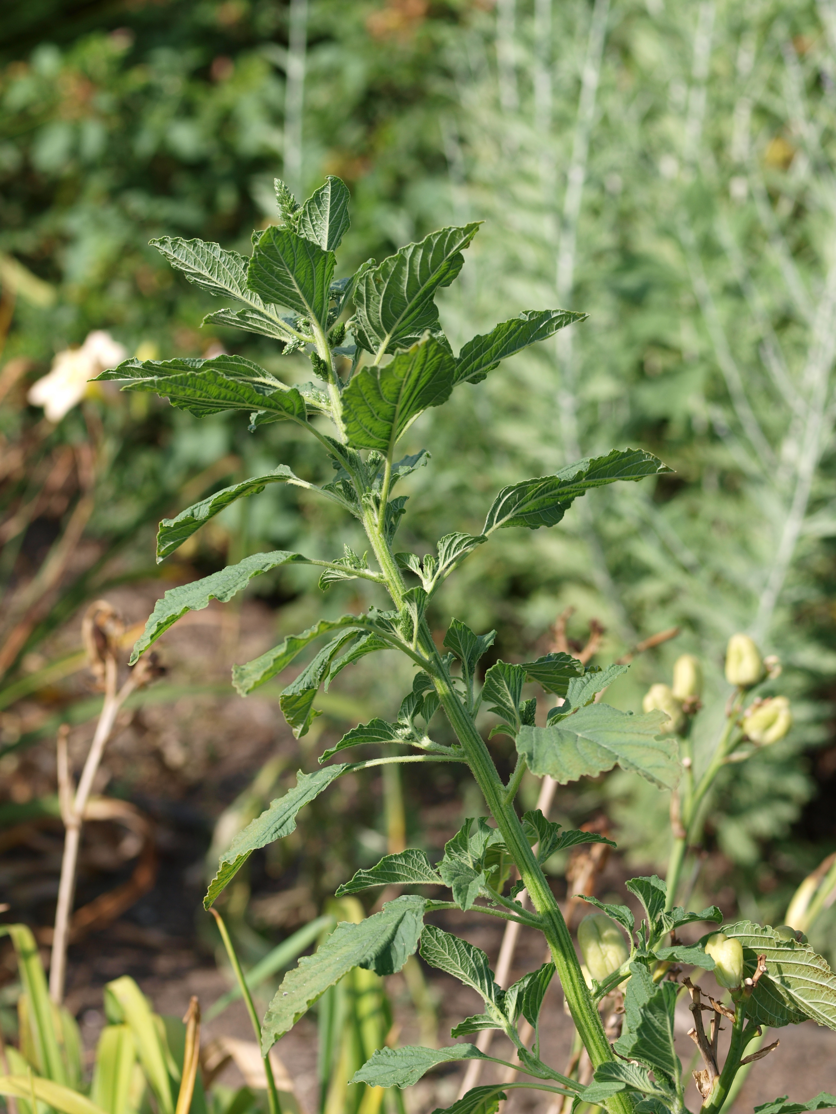 Amaranthus retroflexus, Common Amaranth or Pigweed. They mix in well with the dahlias. So much so that some of them reach 2-3 feet before I pull them. Several studies show that many amaranth species are resistant to herbicides.